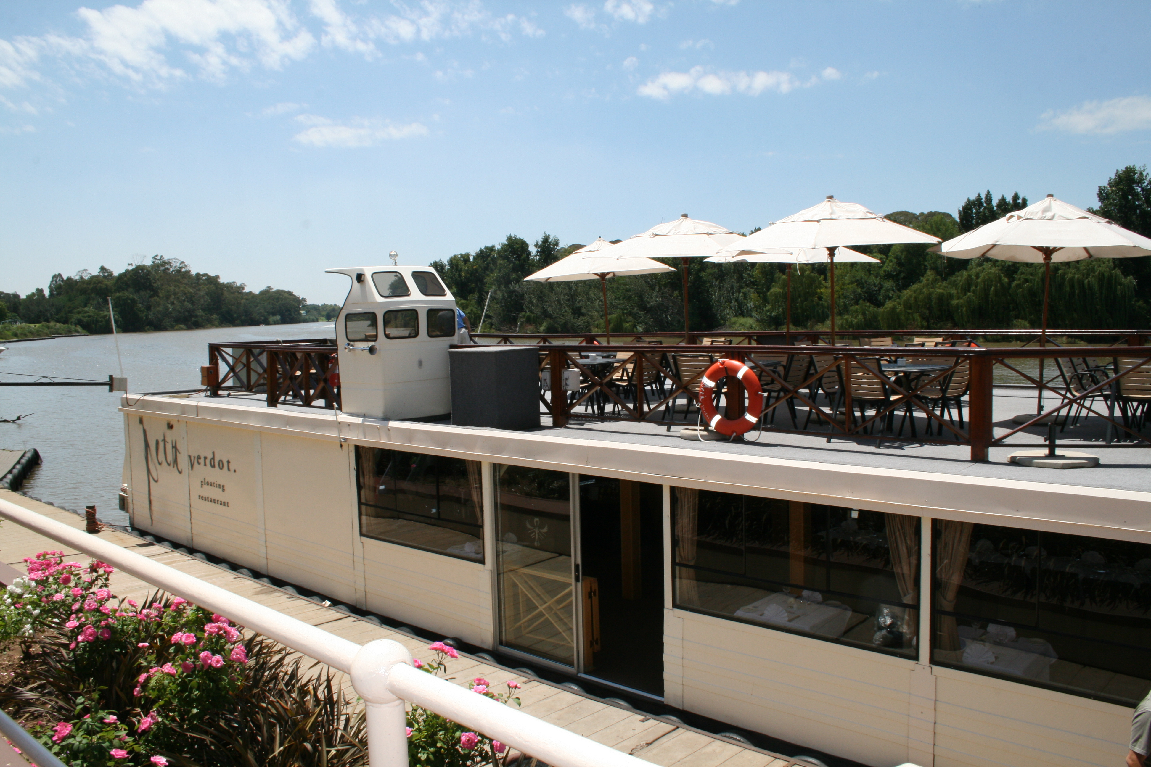 The Petit Verdot[1] floating restaurant at it's moorings at the Riviera on Vaal Hotel, Vereeniging, South Africa